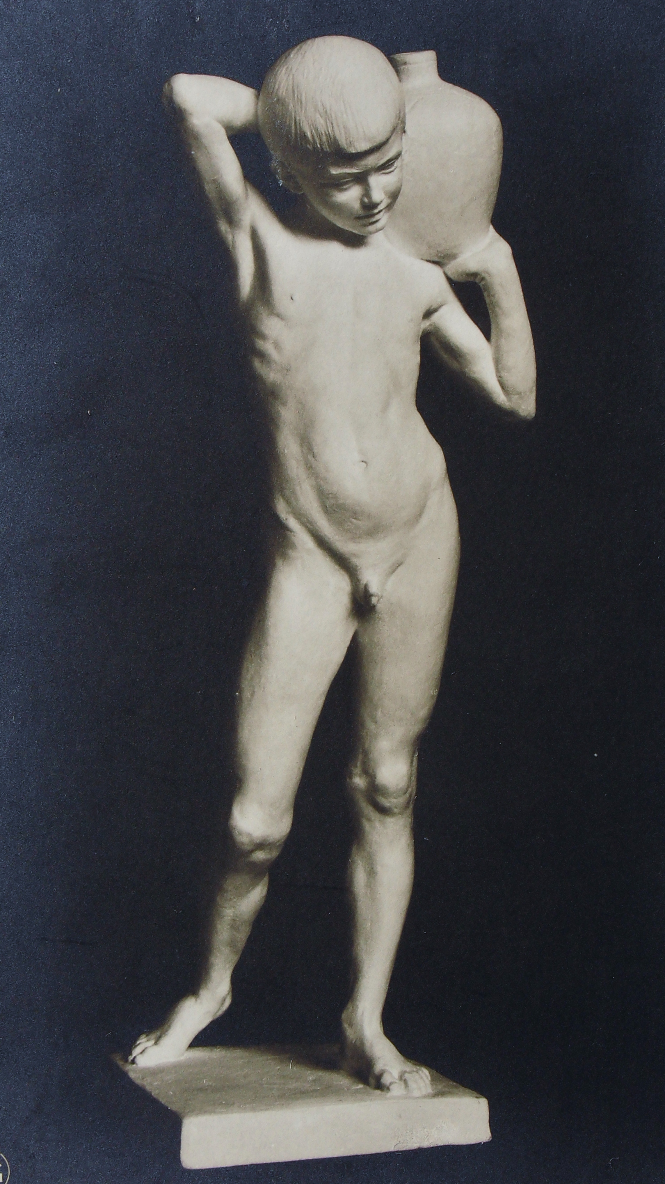 "Krugträger" by Gustav Wallat